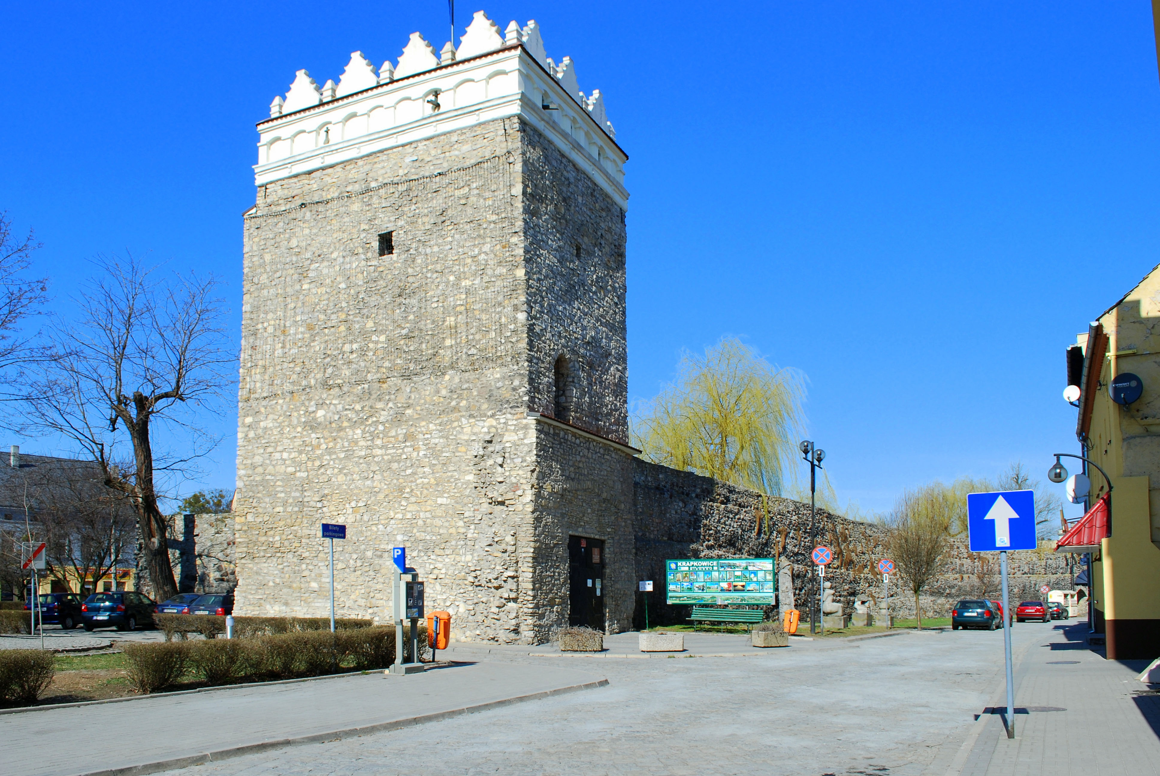 The tower and ramparts of Krapkowice